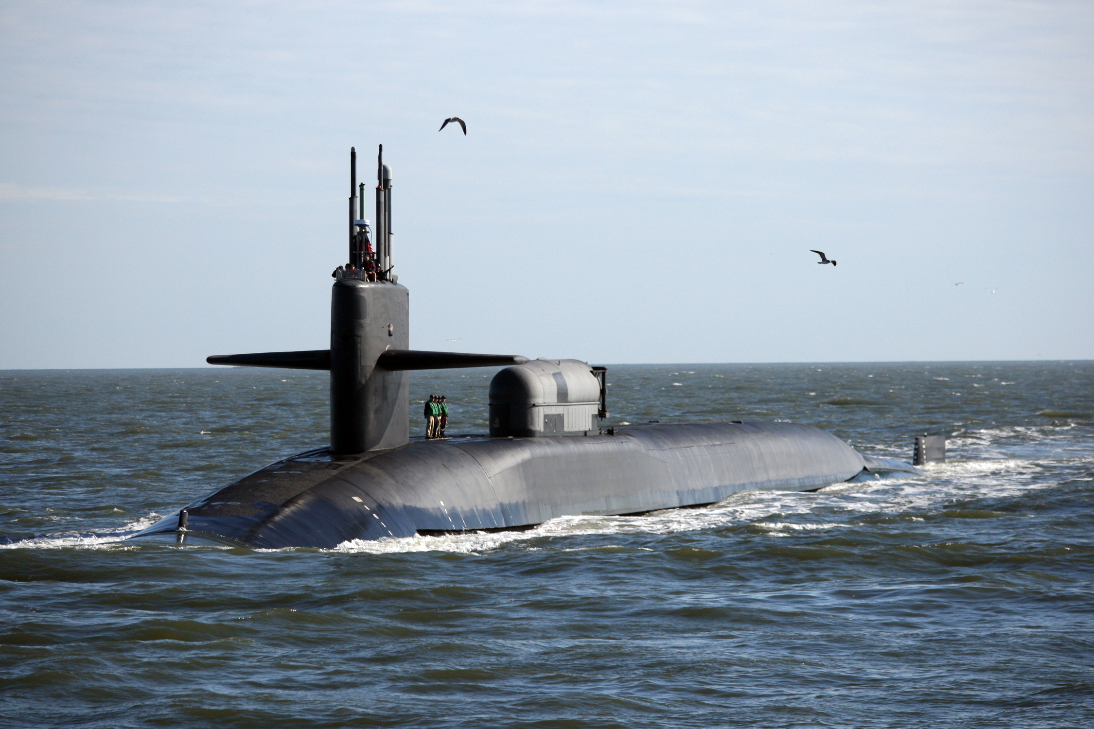 ATLANTIC OCEAN (Nov. 24, 2008) The guided-missile submarine USS Georgia (SSGN 729) (Blue) transits the Atlantic Intercoastal Waterway to Naval Submarine Base Kings Bay, Ga. The submarine is returning from pre-deployment testing. (U.S. Navy photo by Mass Communication Specialist 2nd Class Kimberly Clifford/Released)